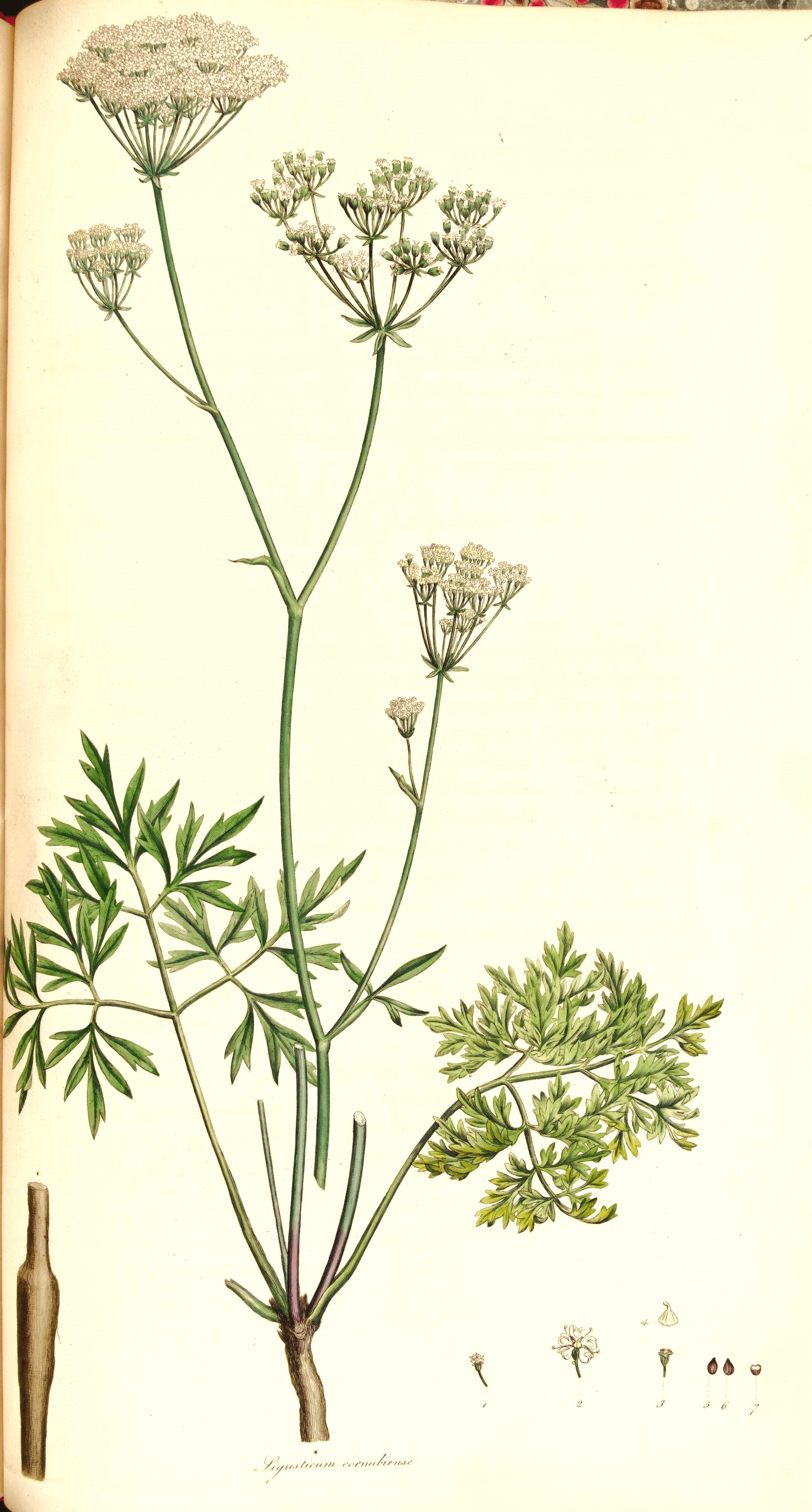 Plate from book